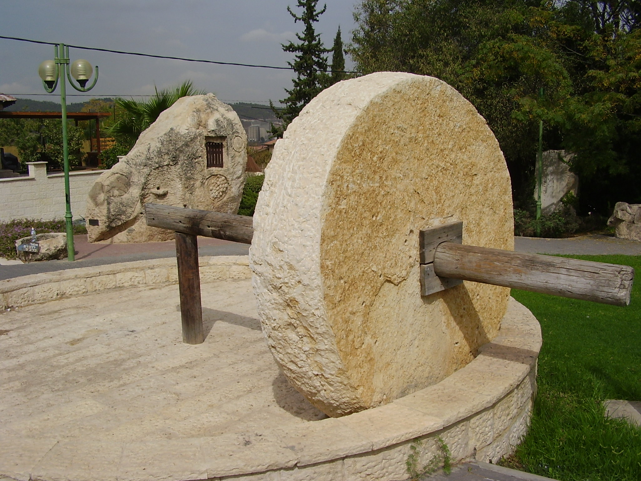 sculpture garden in beit shemesh